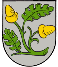 Coat of arms of Großniedesheim